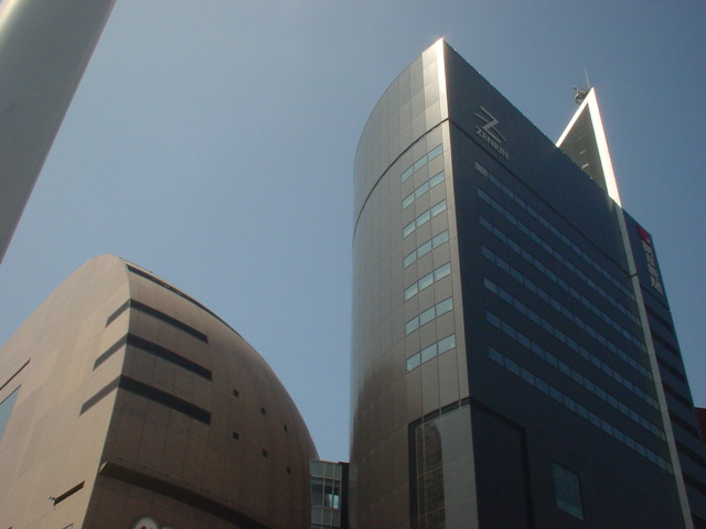 Zenrin and NHK buildings at Riverwalk Kitakyushu Released under the license below by Ian Ruxton (Historian)